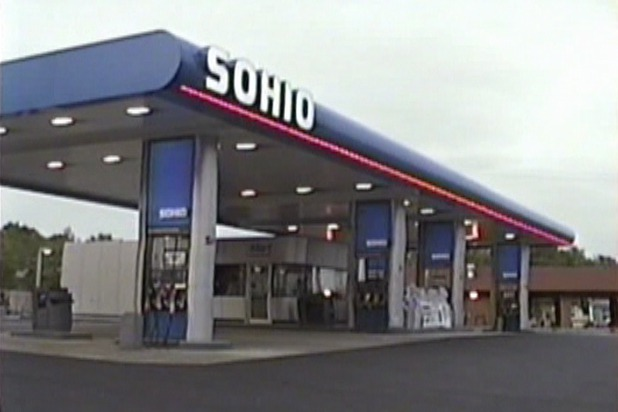 Picture of Sohio Station circa 1989.